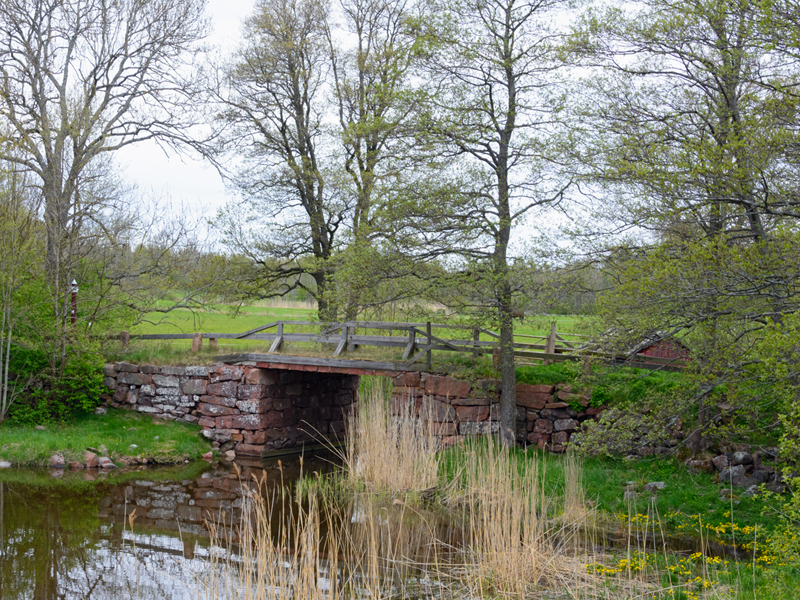 Bjärströms bro in Åland, Finland